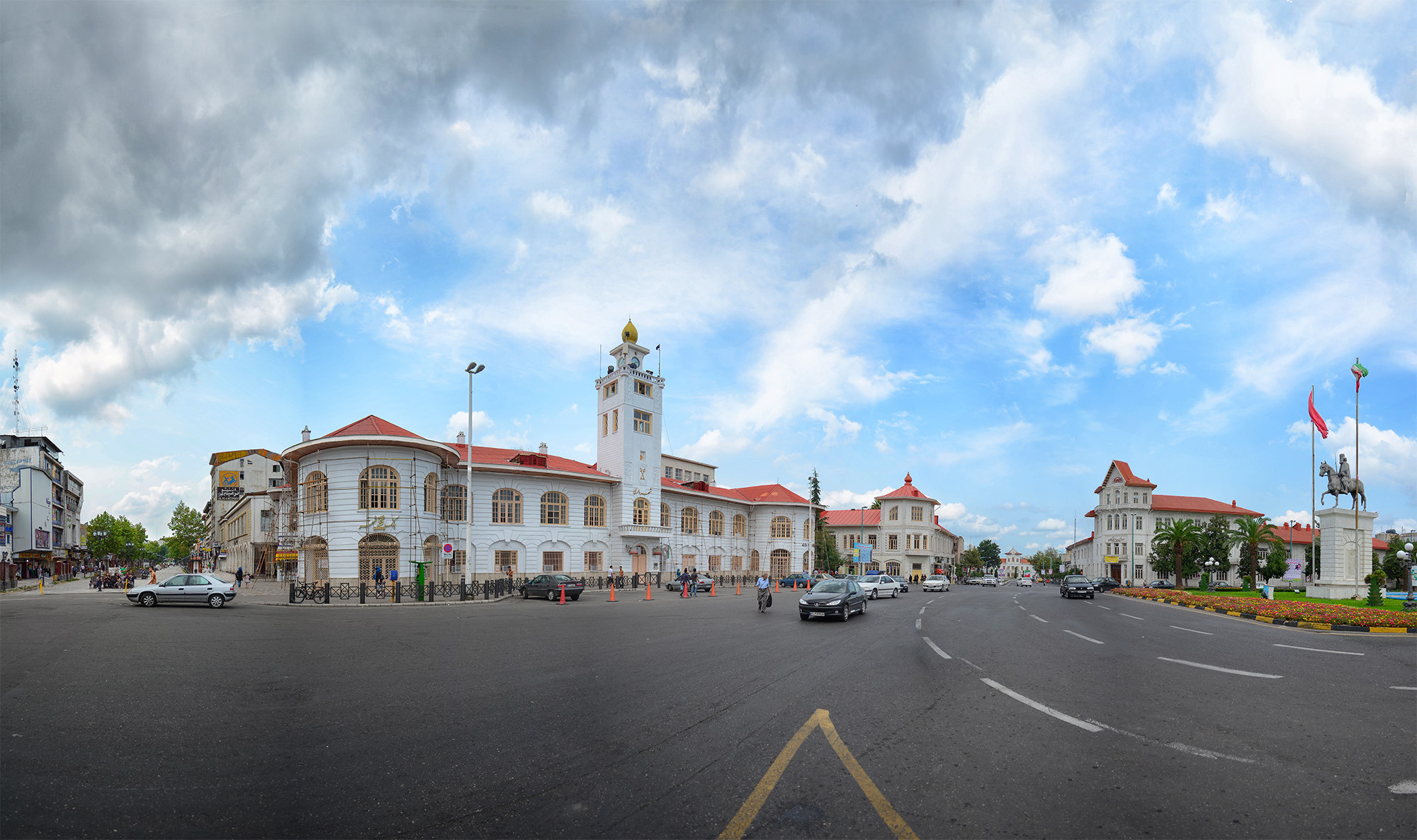 Panorama image of the city of Rasht